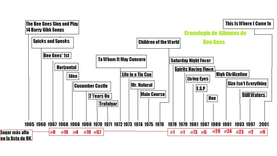 bee gees cronologia albumes